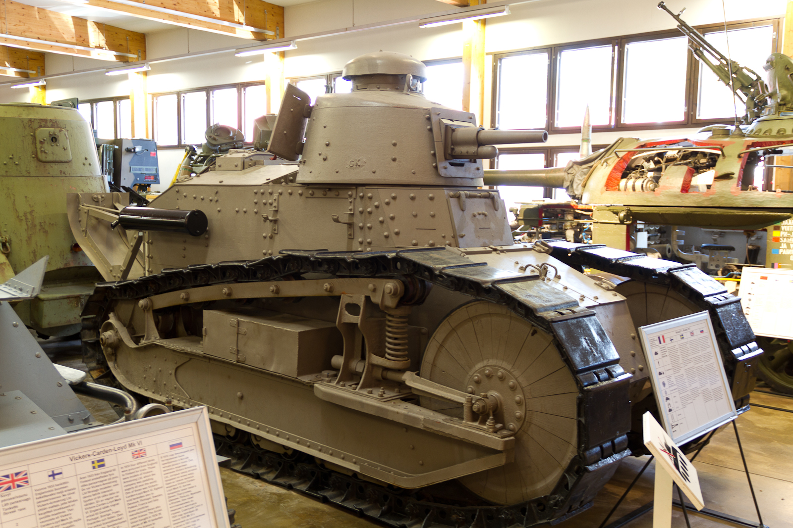 Renault FT-17 at the Parola Tank Museum.